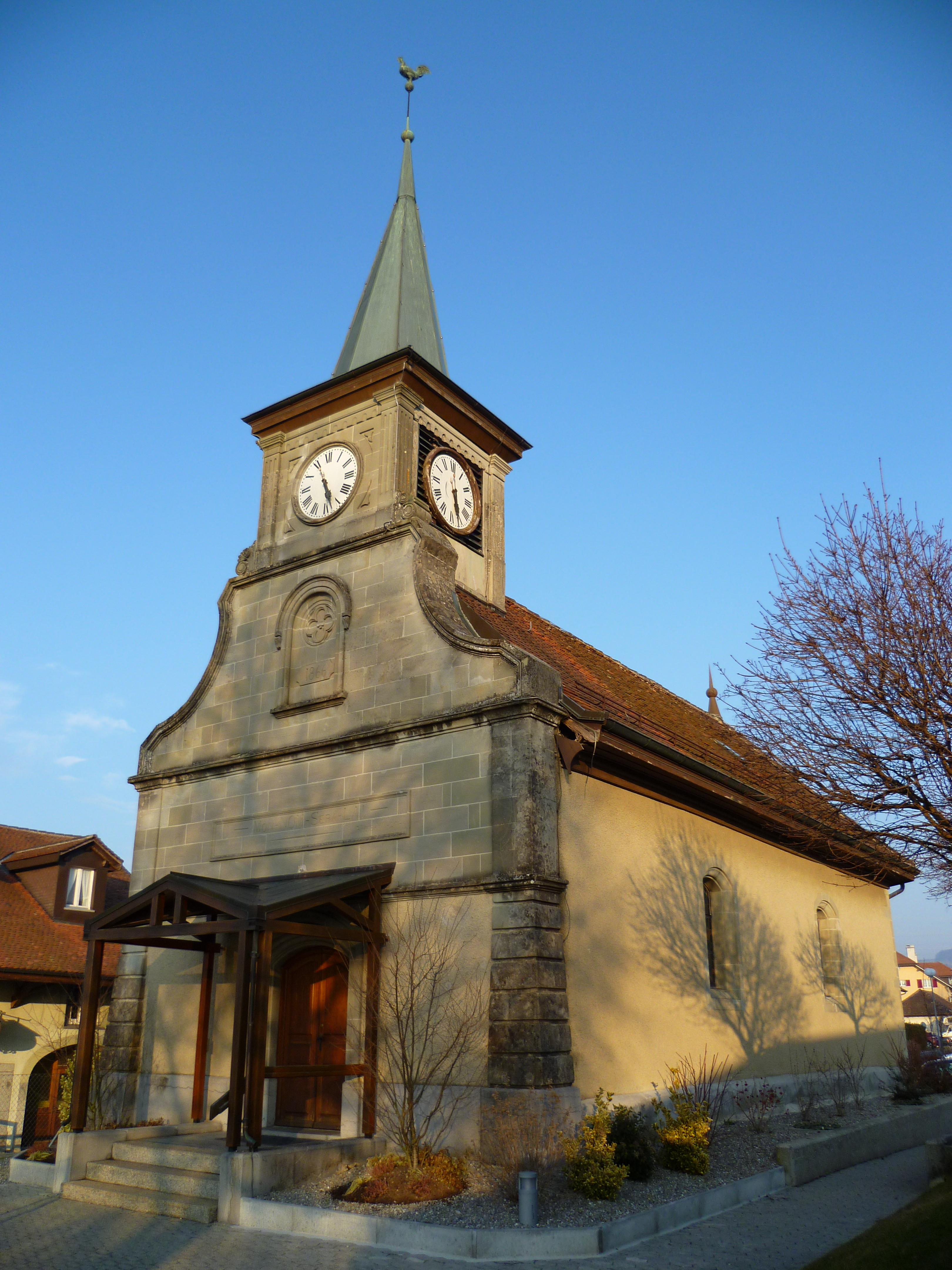 Temple of ROmanel-sur-Lausanne, Vaud, Switzerland.